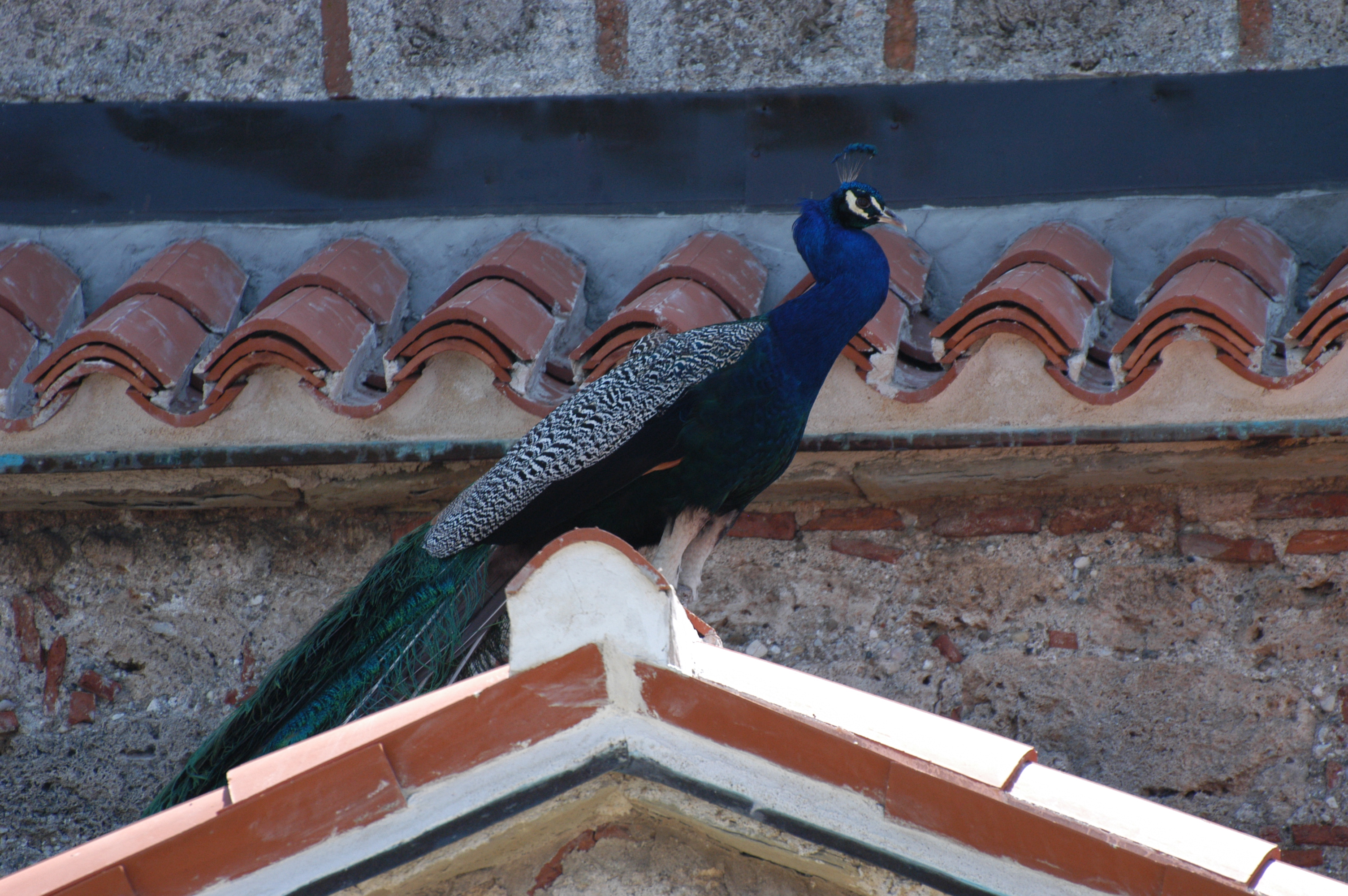 Pavo at Naum Monastery, Macedonia